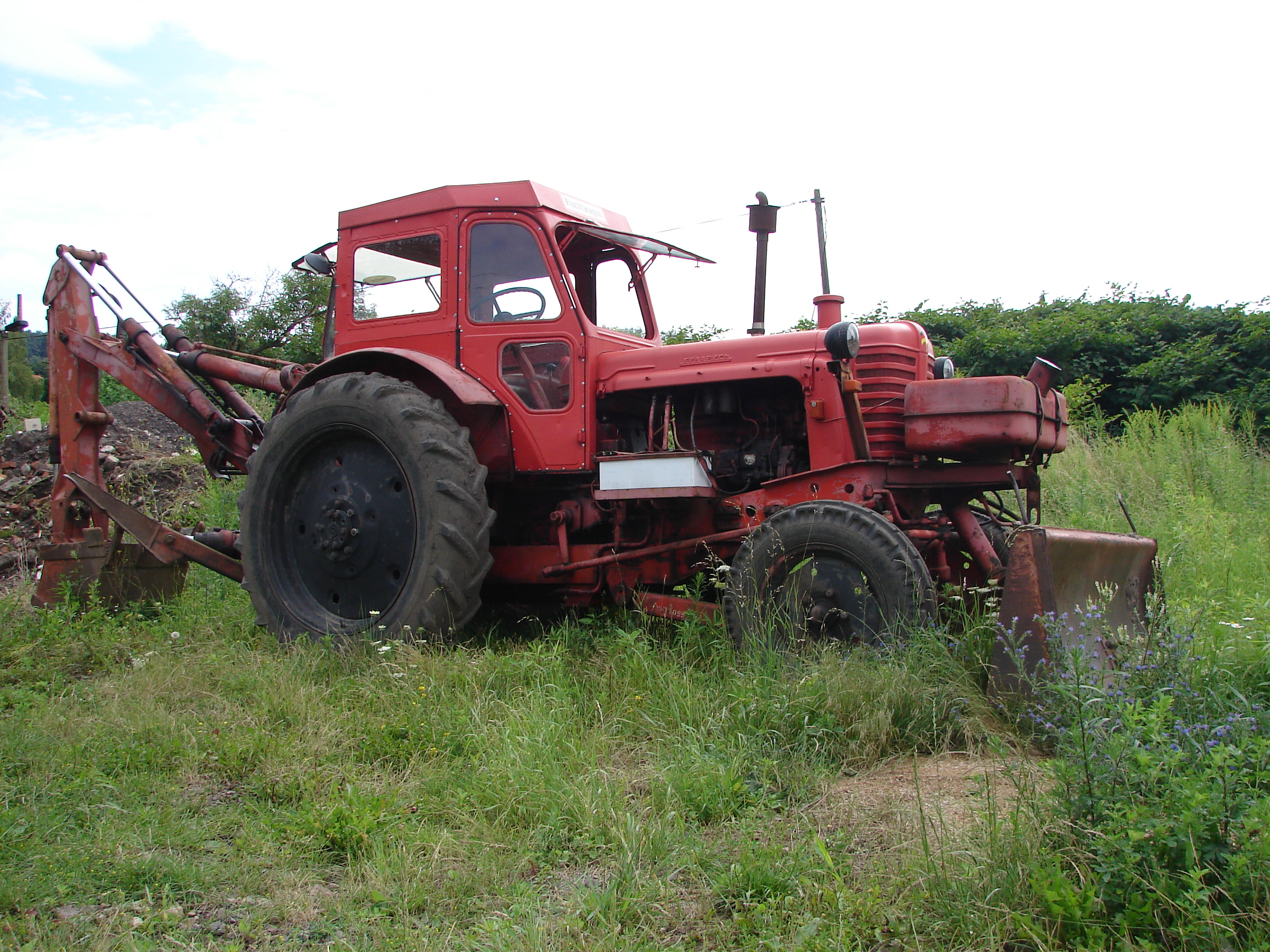 Belarus MTS 5 with straight blade and rear actor, front view